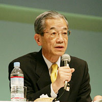 Yoshinobu Ishikawa, Governor of Shizuoka Prefecture, attended the symposium at the Shizugin Hall Euphonia in Shizuoka City, Shizuoka Prefecture on February 15, 2007.